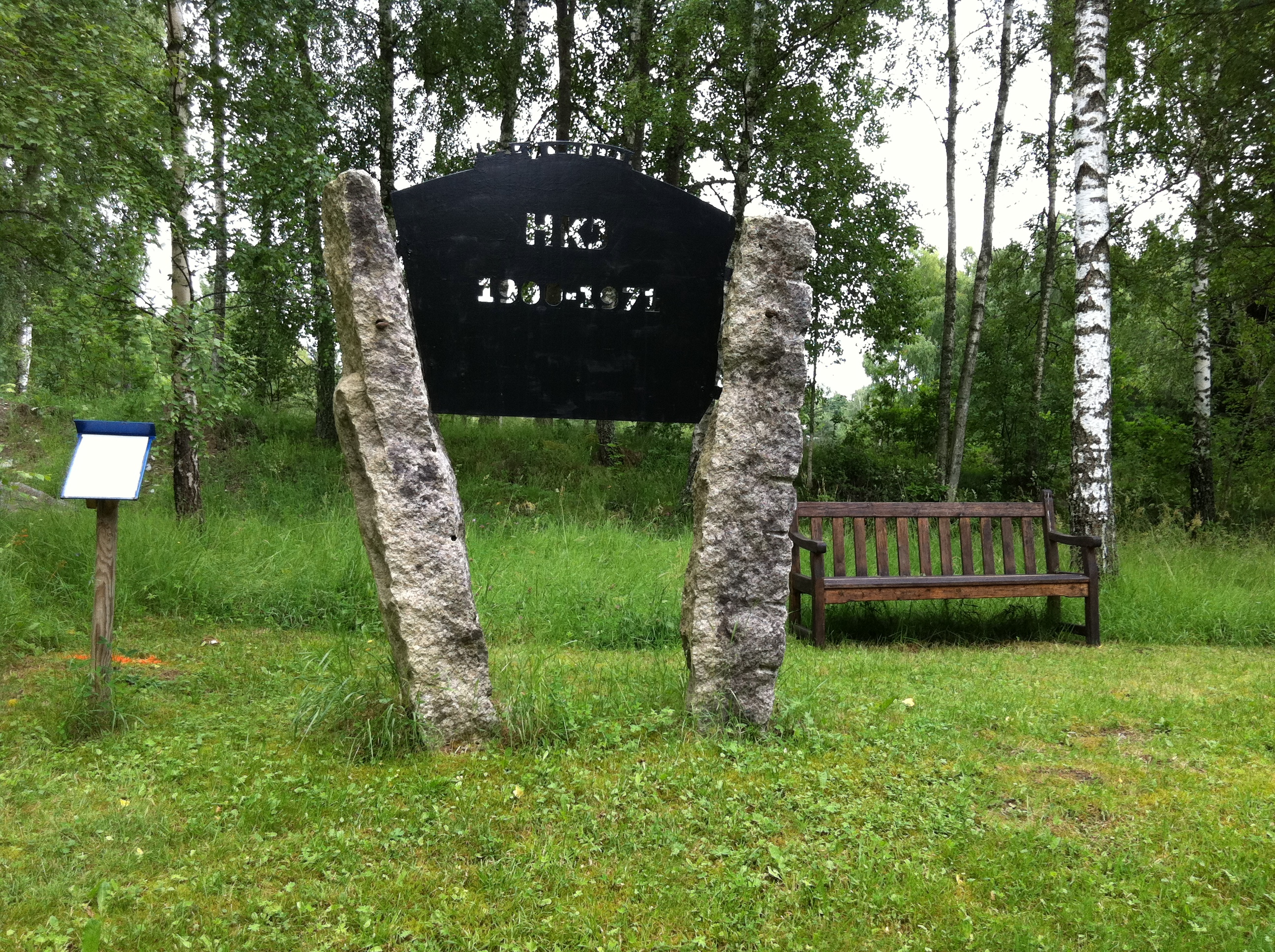 Monument for the defunct HKJ narrow-gauge railway line in Rössmåla